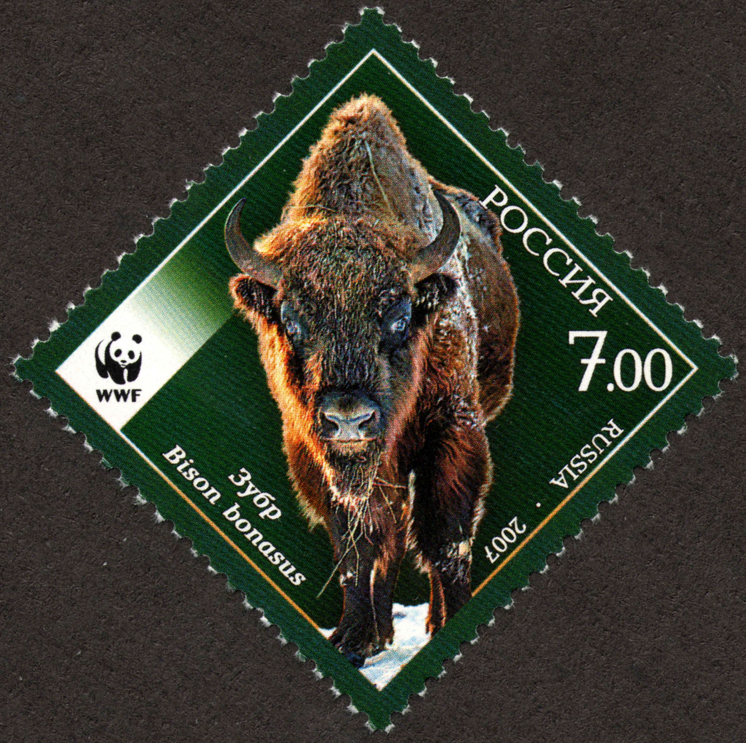 Fauna. The endangered species. Wisent (Bison bonasus). The stamp of Russia, 7.00 Ruble, 1 October 2007, PTC Marka Catalogue No 1204, Michel No 1436.